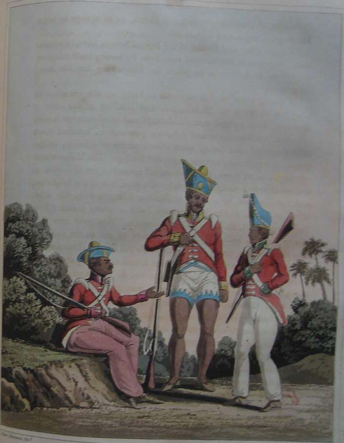 "Seapoys of the Bombay, Bengal, and Madras Armies," from 'Journal of a route across India, through Egypt to England' by Lieutenant Colonel George Fitzclarence (John Murray, London, 1819)